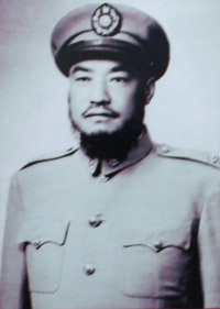 Republic of China Chinese muslim General Ma Bufang. Was a member of the Kuomintang.